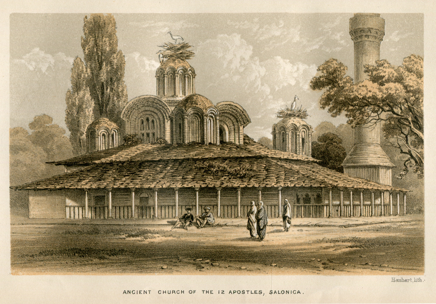 Ancient church of the 12 Apostles, Salonica - Walker Mary Adelaide - 1864